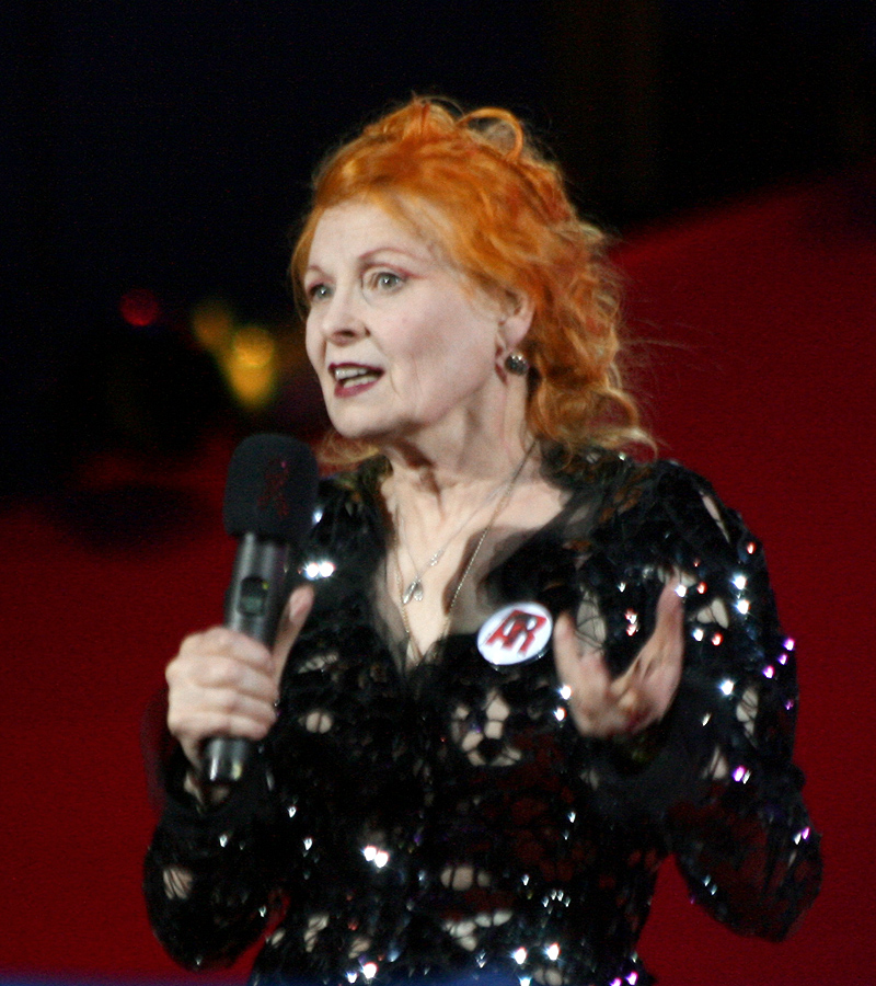 Vivienne Westwood at Life Ball 2011, Rathaus (Town Hall) of Vienna, Austria.